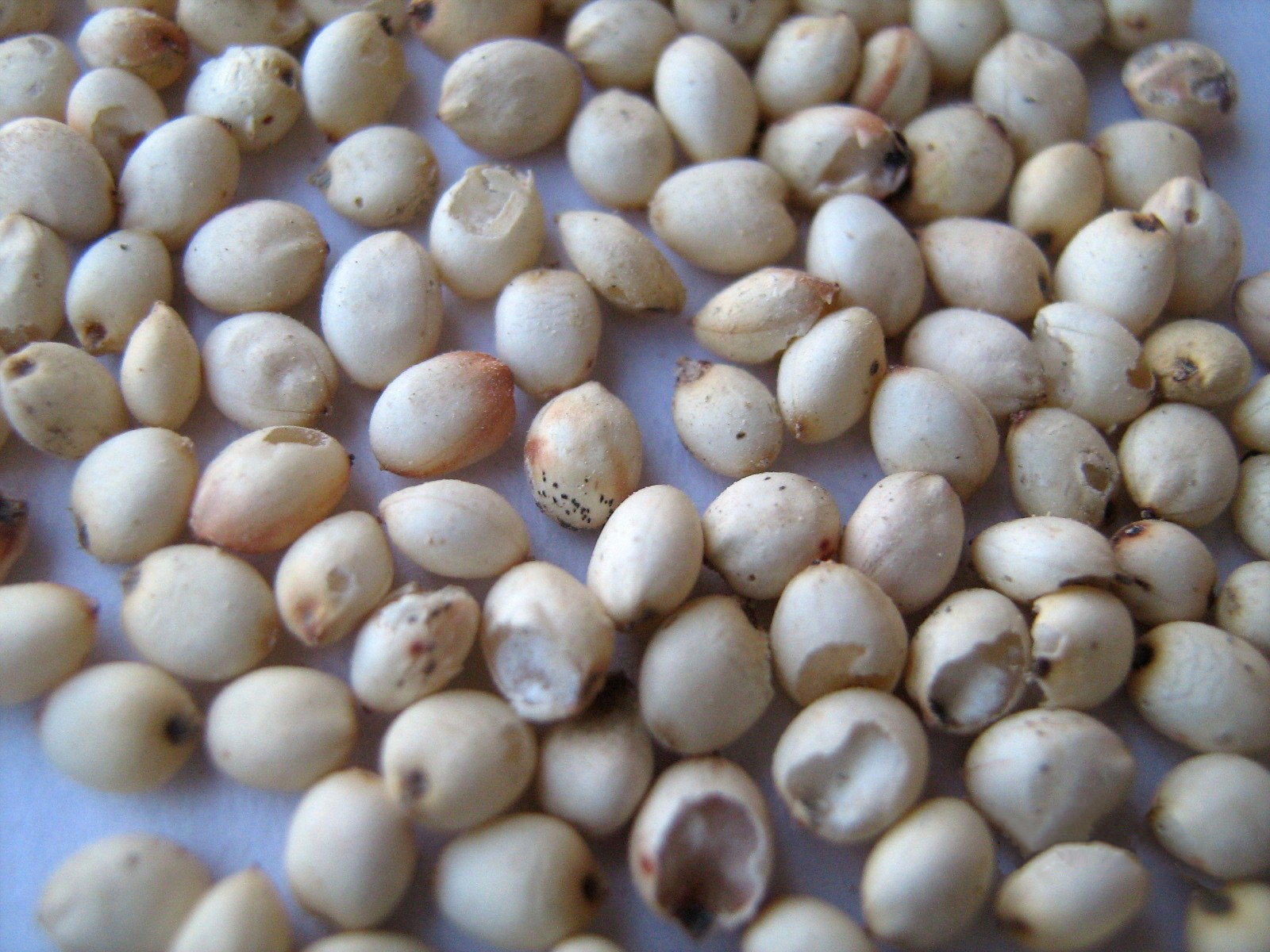 grains of sorghum(wild type), Tamil Nadu, India